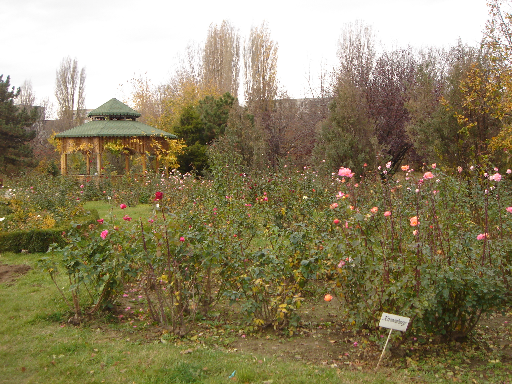 Botanic Garden in Galati